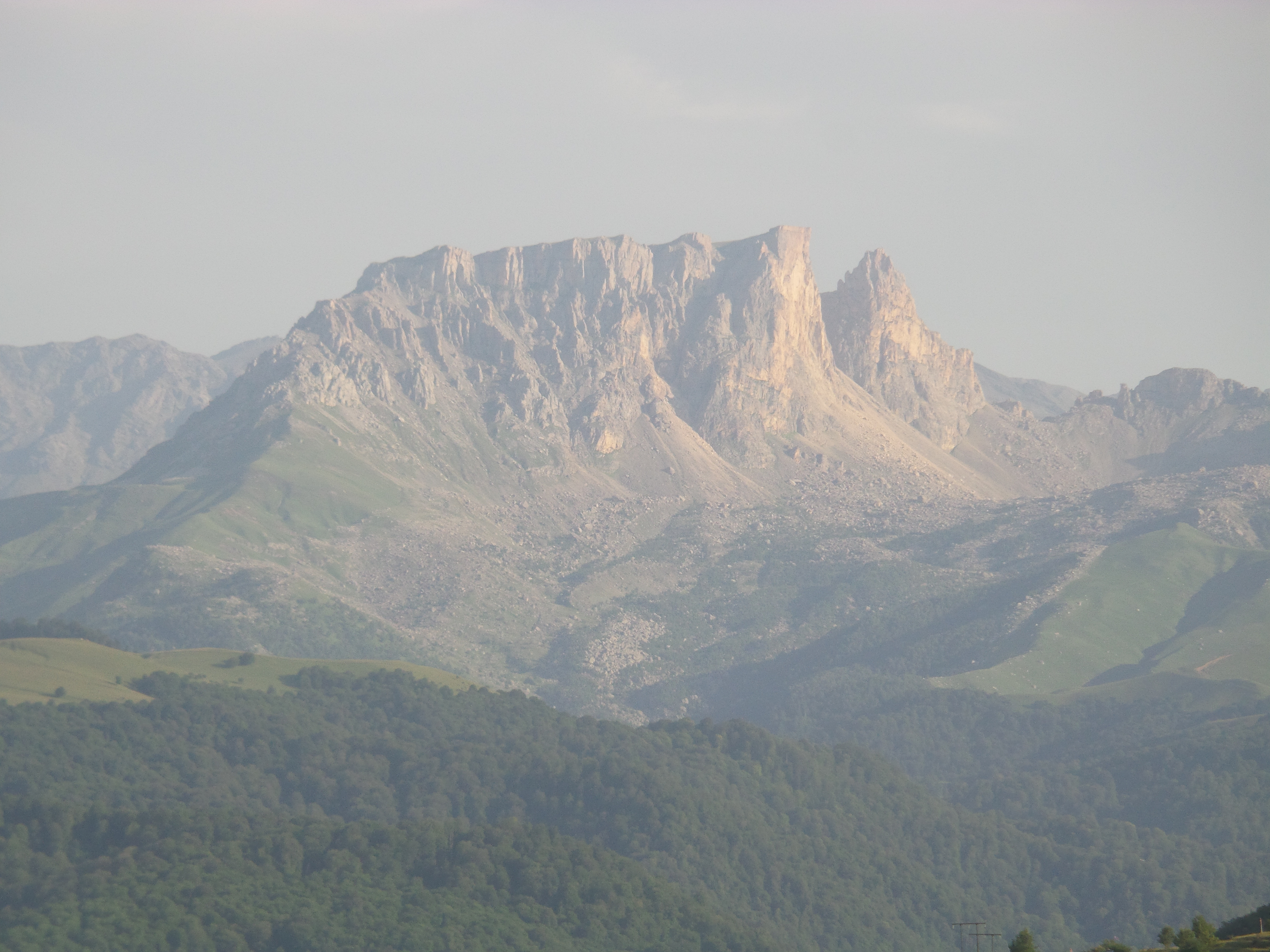 View the Kepez mount 1